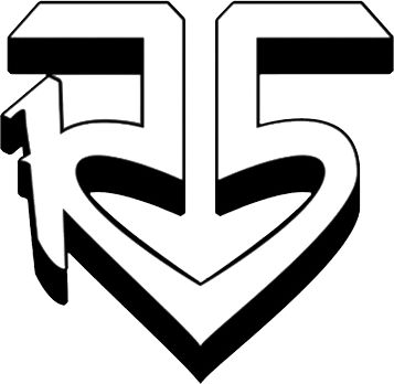 R5 logo.